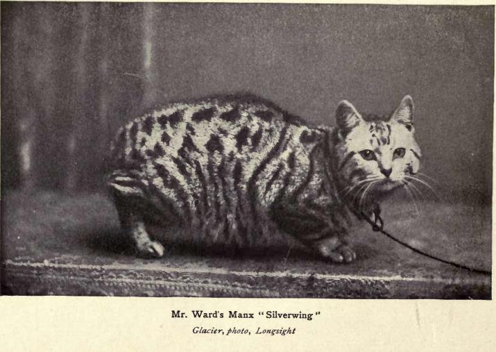 "MANX SILVERWING, a quaintly marked little Silver Tabby, formerly owned by Mr. Foalstone. At the Manchester N.C.C.C. Show she was purchased by Mr. Ward, of Longsight. Silverwing has won many prizes, and calls forth great admiration whenever exhibited"